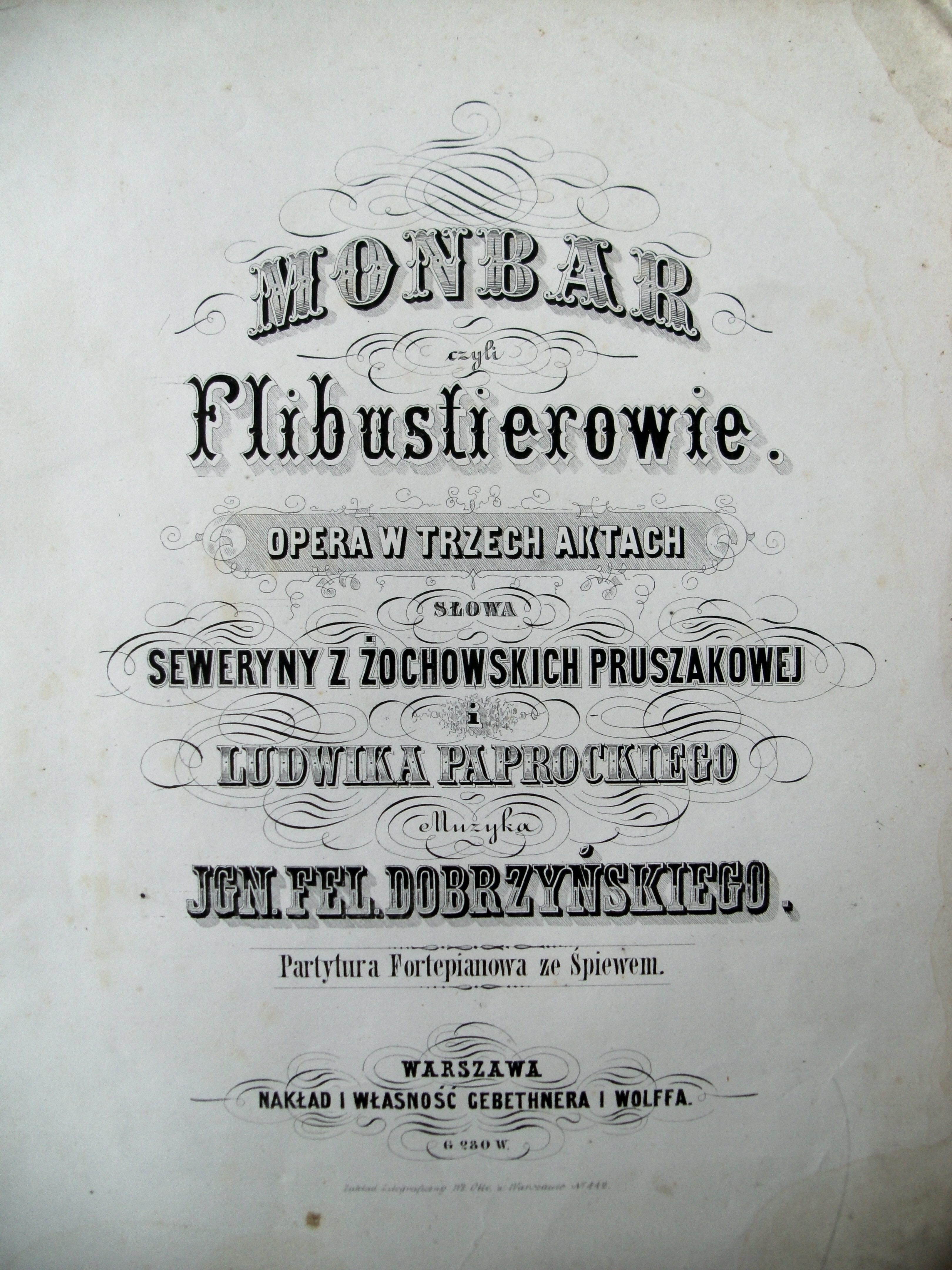 Opera "Monbar or Flibustierowie" Ignacy Feliks Dobrzynski, to a libretto by S. from Żochowskich and L. Paprocki, edition Gebethner and Wolff, Warsaw, 1863, title page.